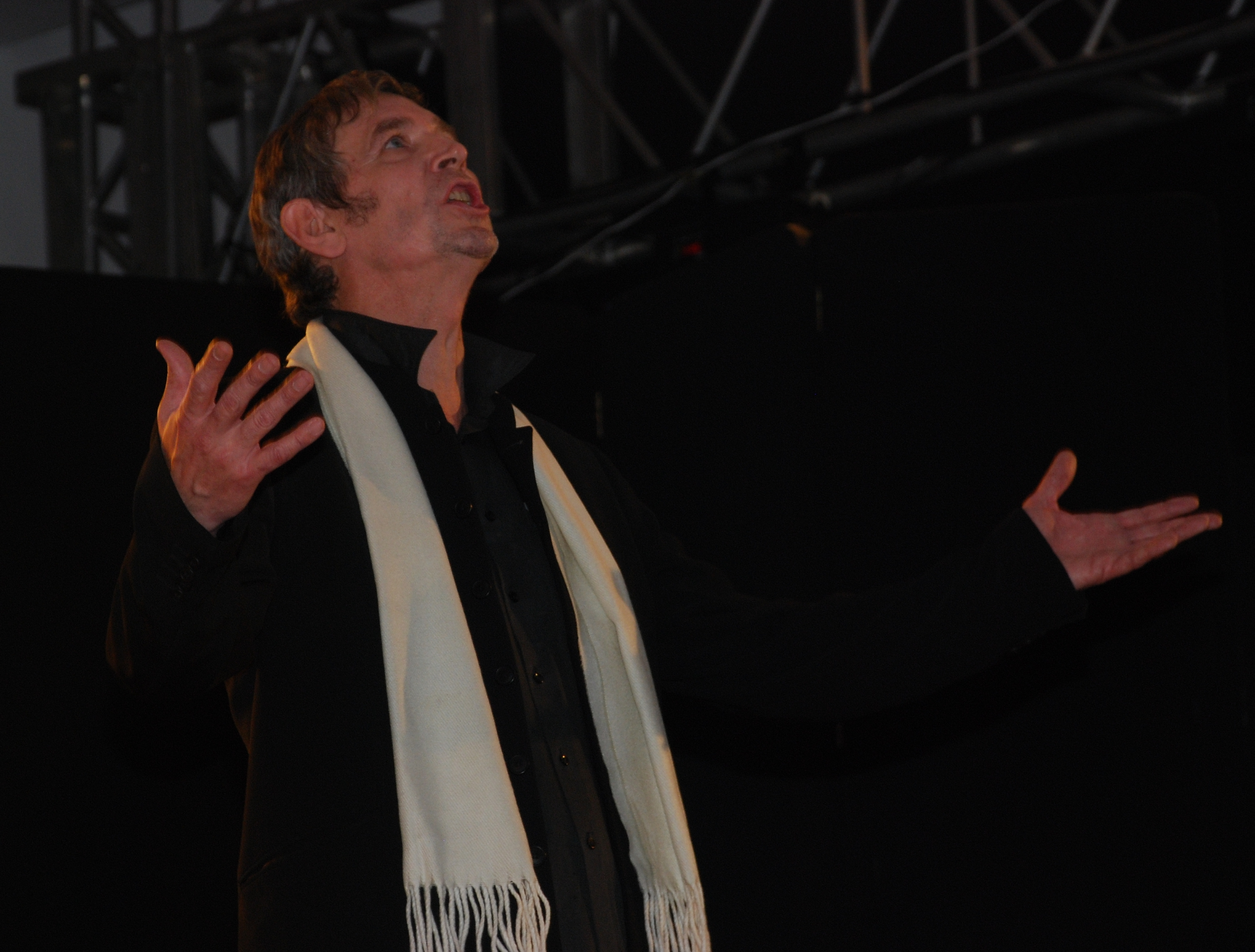 Władysław Sikora as an actor of the "Żżżż" Cabaret Theatre of Nonsense at the 2007 Festival of Cabaret in Zielona Góra.